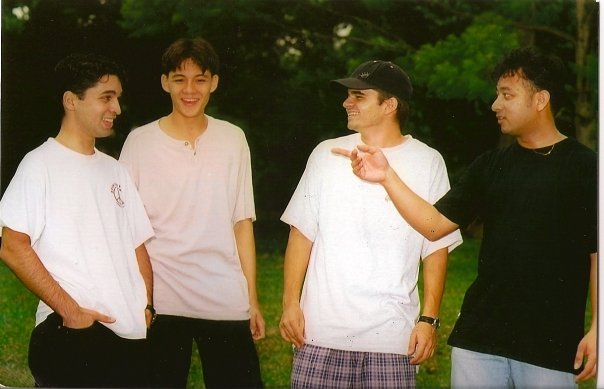 Mnemonic Album cover